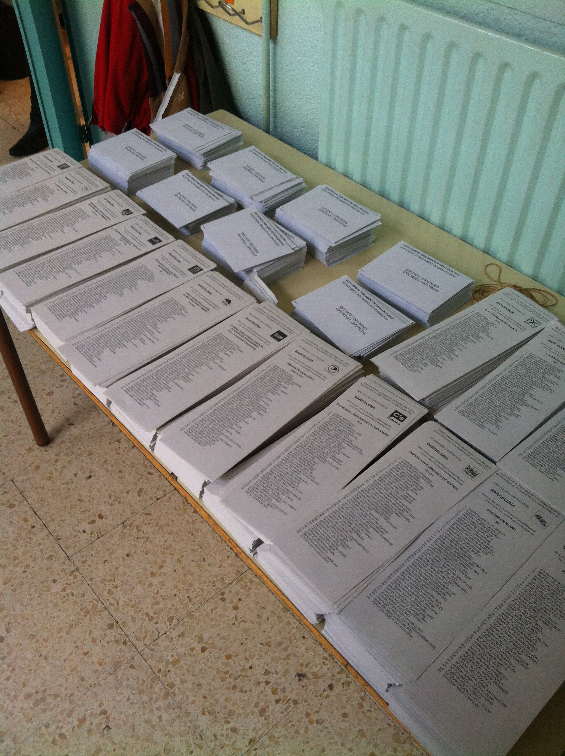 Catalonian parliamentary election in Sabadell, 2012